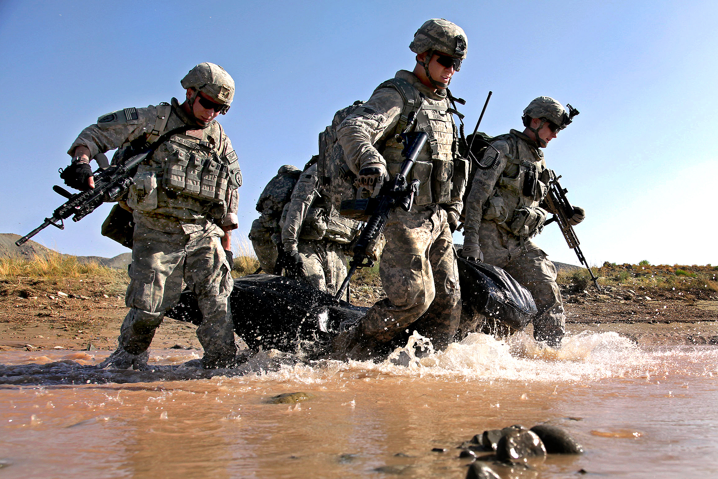 U.S. Army Soldiers carry a bag filled with food and water that will sustain them while on a multi-day mission near Sar Howza in Paktika province, Afghanistan, Sept. 2, 2009. The Soldiers, assigned to 1st Squadron, 40th Cavalry Regiment, will hide the bag until they return to gather and distribute the contents before moving to a different location. U.S. Army photo by Staff Sgt. Andrew Smith See more at